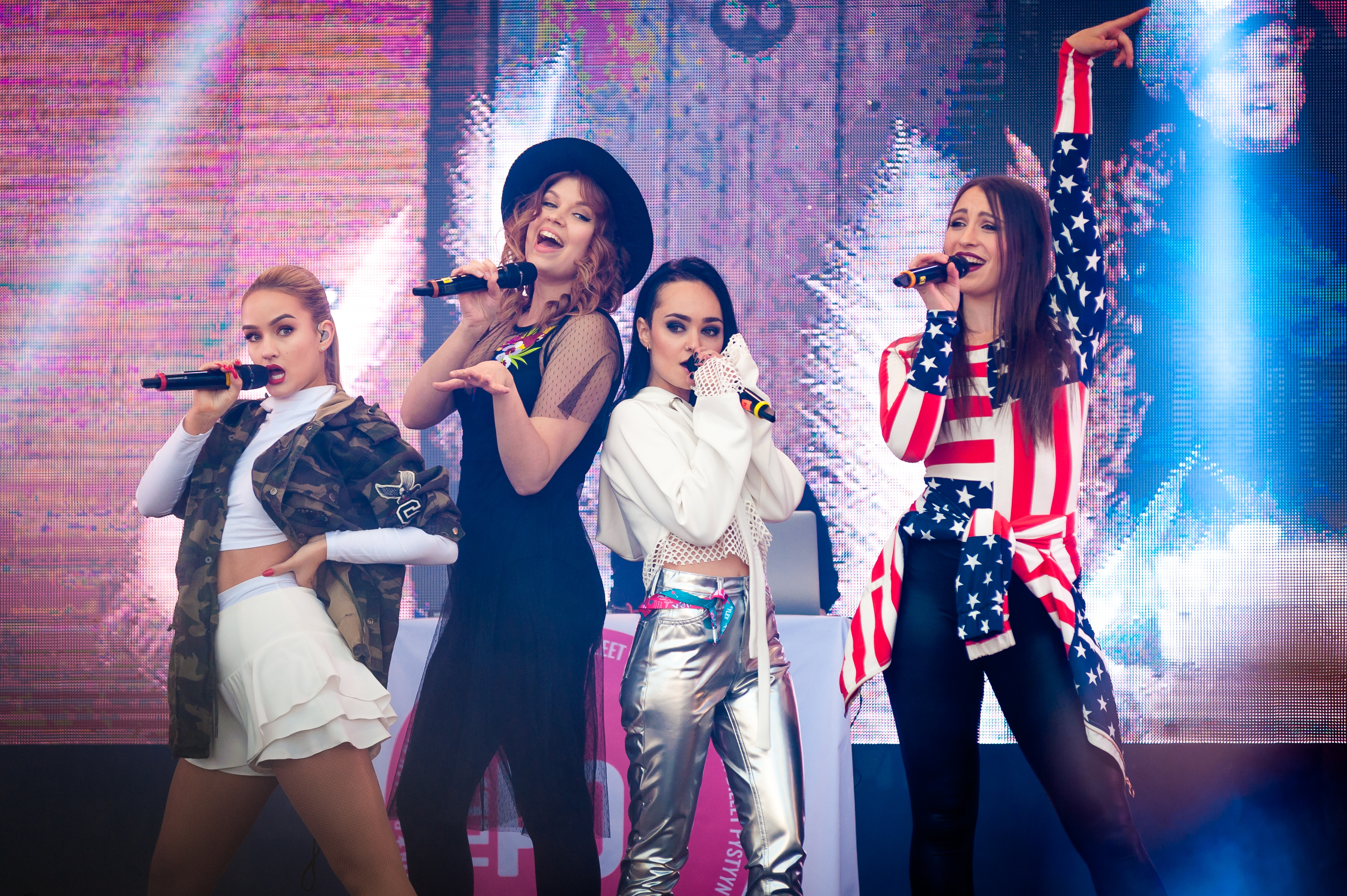 Nelli Matula, Vilma Alina, Sini Yasemin and Ida Paul performing their hit Tyynysotaa at the 2017 YleXPop festival in Lahti, Finland.